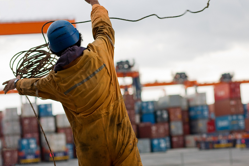 Filipino seaman throwing the ball of the heaving line ashore.